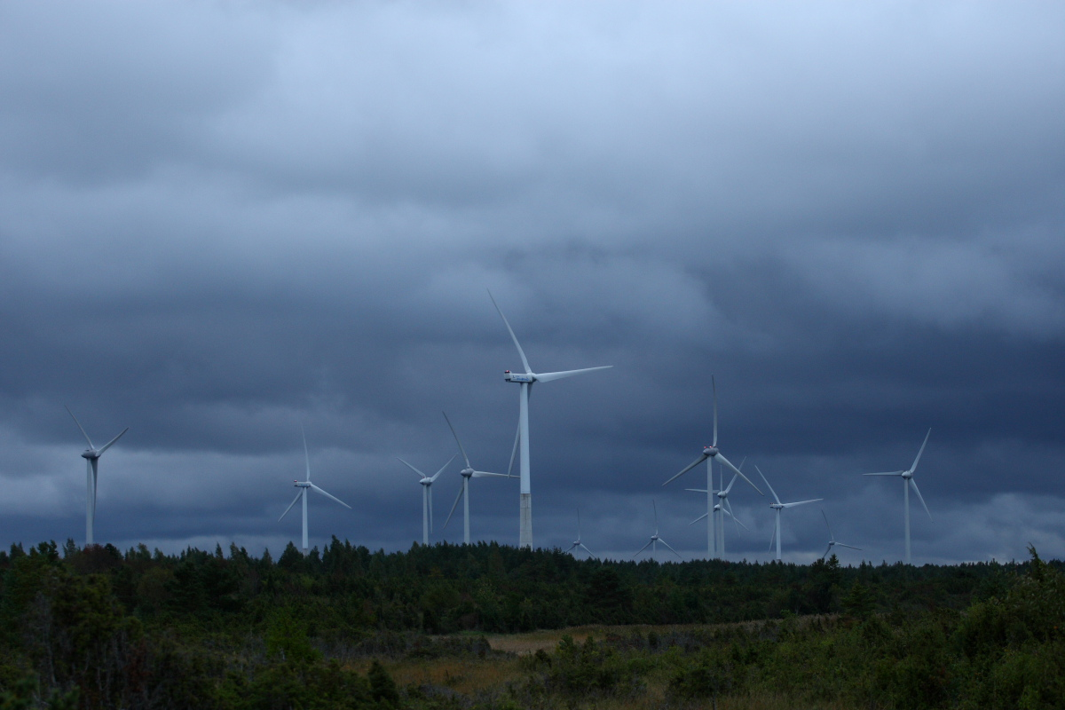 Wind farm of Hanila, Hanila Parish, Lääne County, Estonia